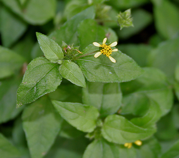 Synedrella nodiflora in Hyderabad , India.